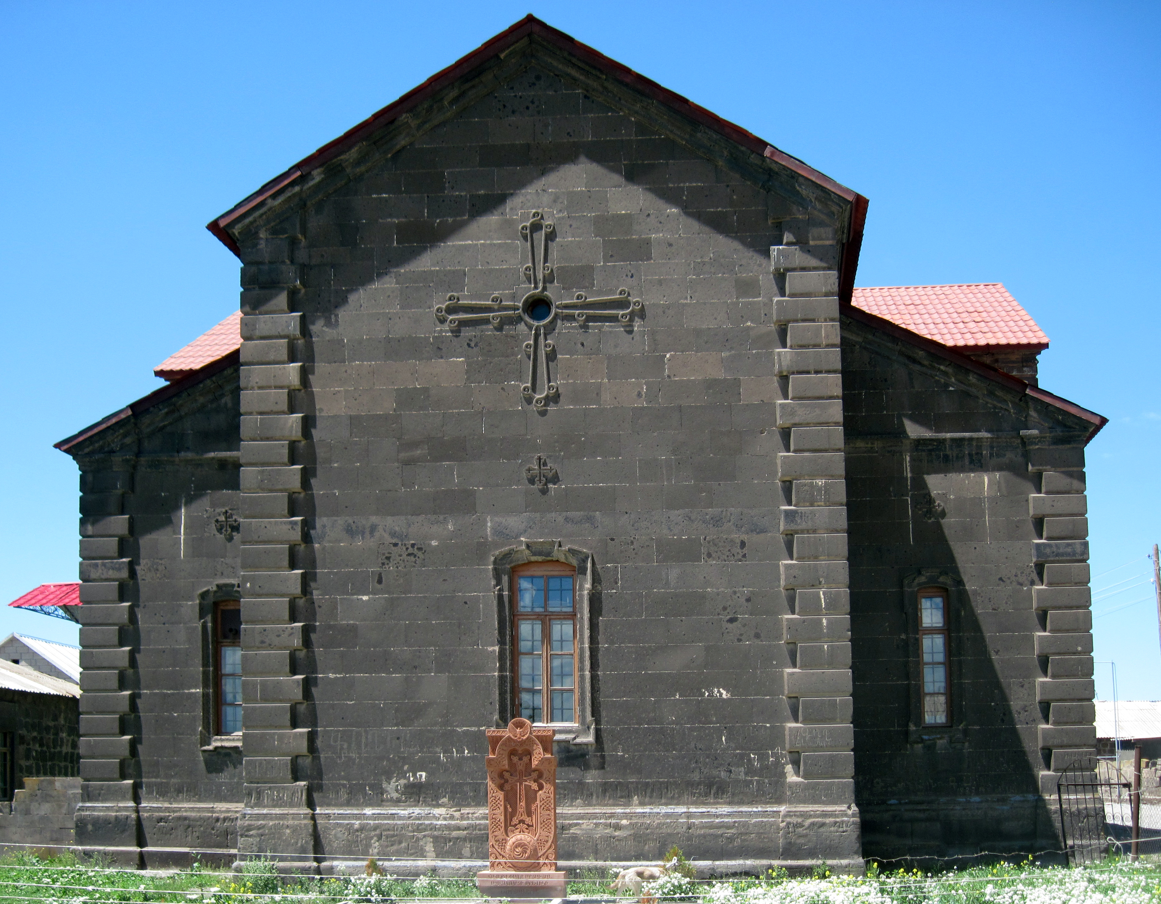 Saint Gregory the Illuminator church in Arevik village (Shirak Province in Armenia) 20/3